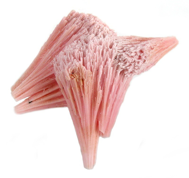 Kutnohorite Locality: Wessels Mine (Wessel's Mine), Hotazel, Kalahari manganese fields, Northern Cape Province, South Africa (Locality at ) Beautiful, intricate floater cluster of elongated kutnahorite! 4.4 x 4.2 x 1.9 cm